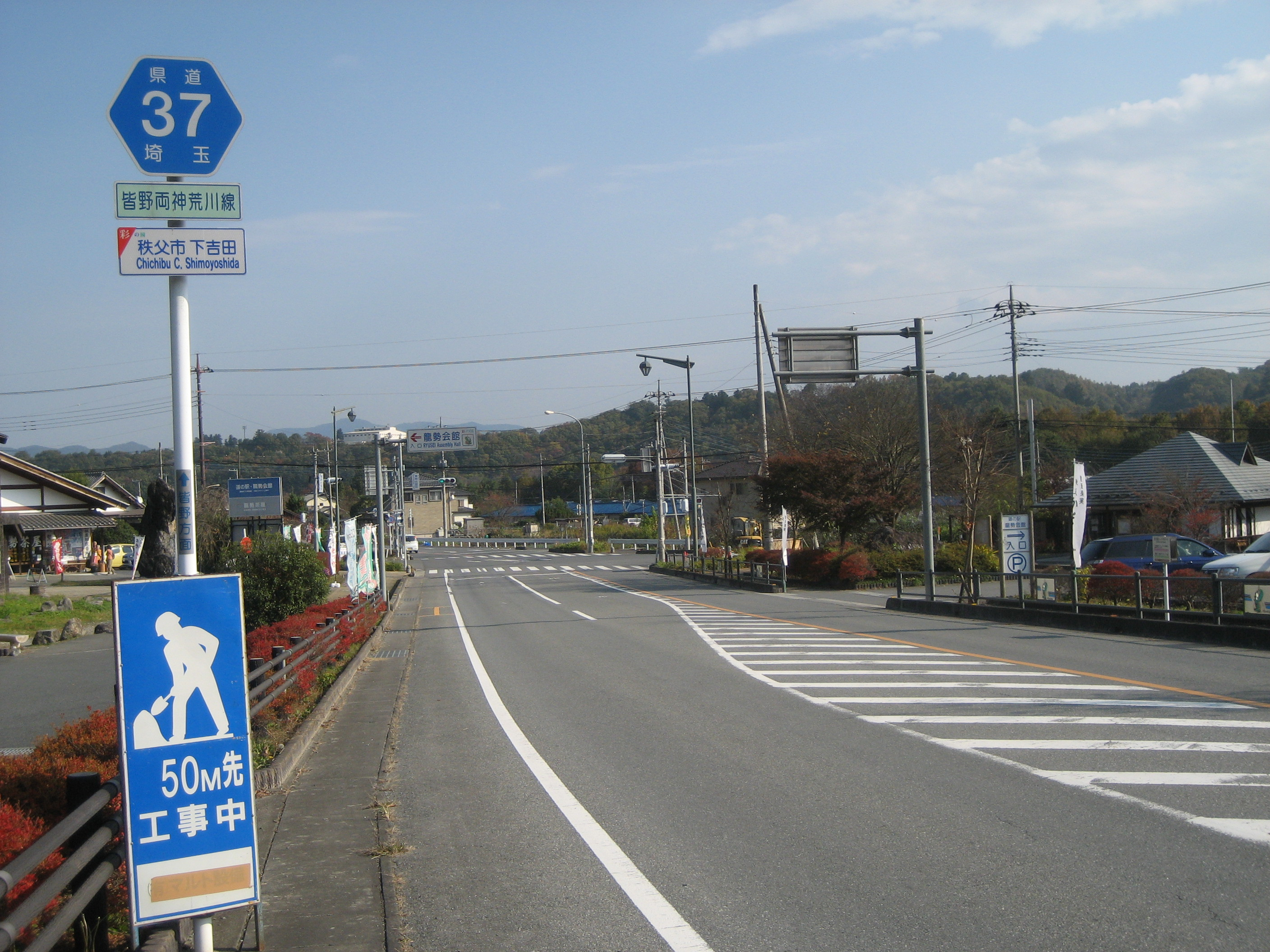 The Saitama Prefectural Road Route 37 near Michinoeki Ryuseikaikan in Chichibu City